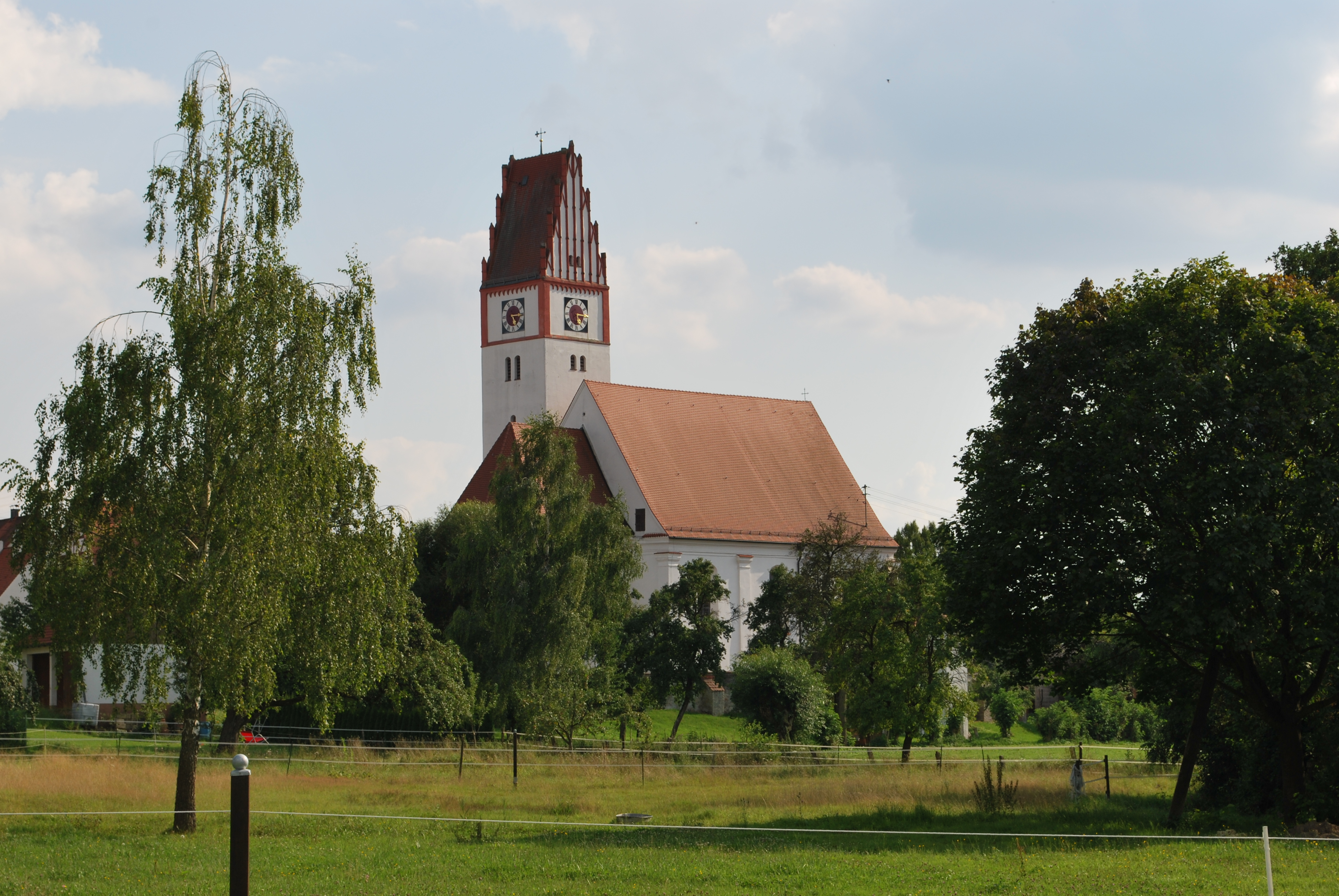 St. Mariä Geburt, a sight of Bubesheim